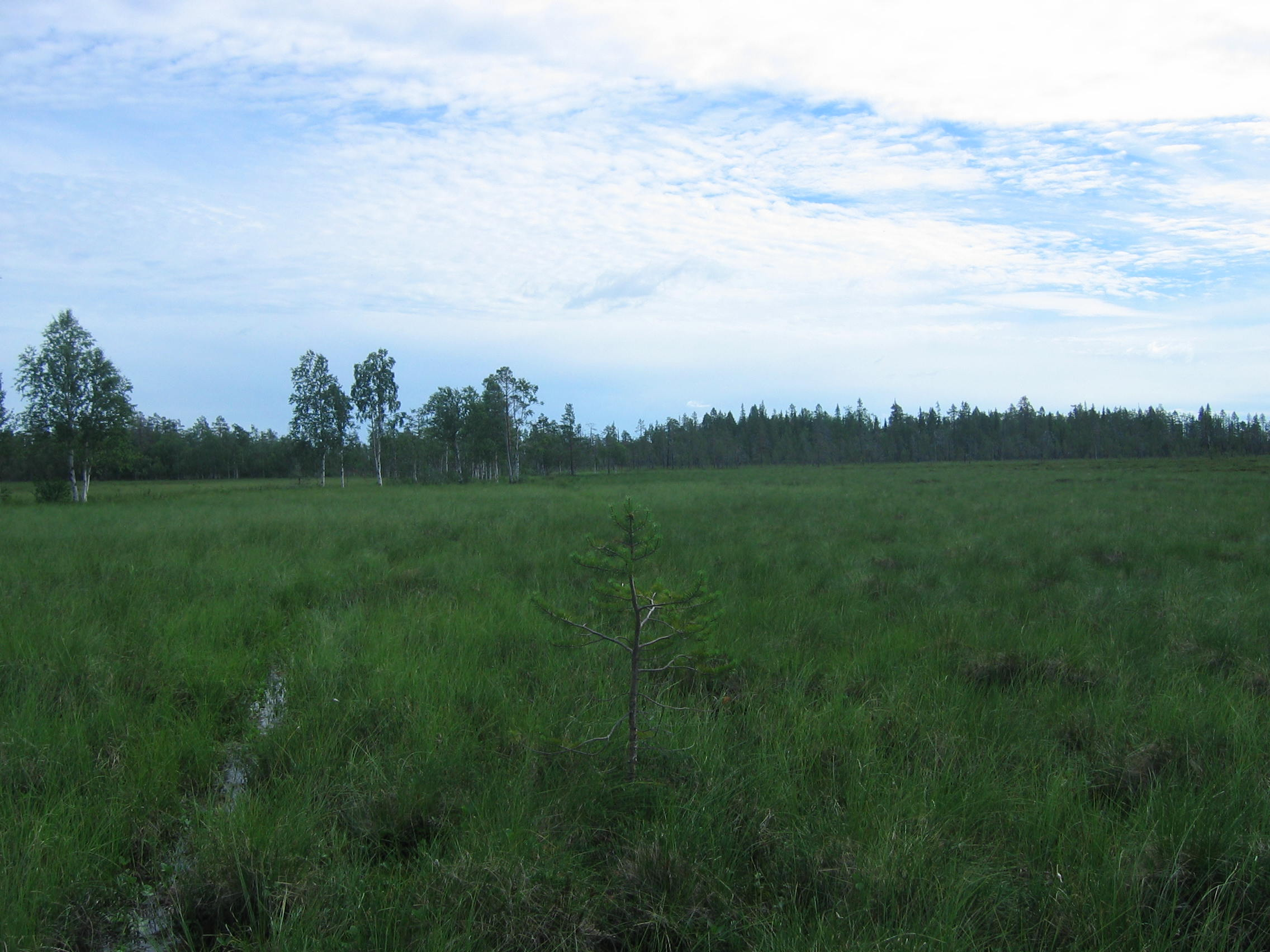 Iso Äijönsuo open bog in Yli-Ii, Finland.